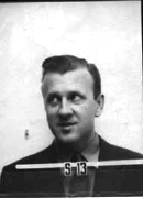 Emil J. Konopinski Los Alamos wartime security badge.